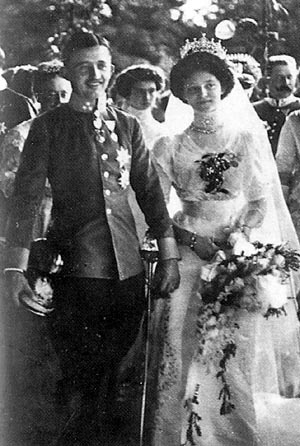 The wedding of Archduke Charles of Austria-Este and Zita of Bourbon-Parma.